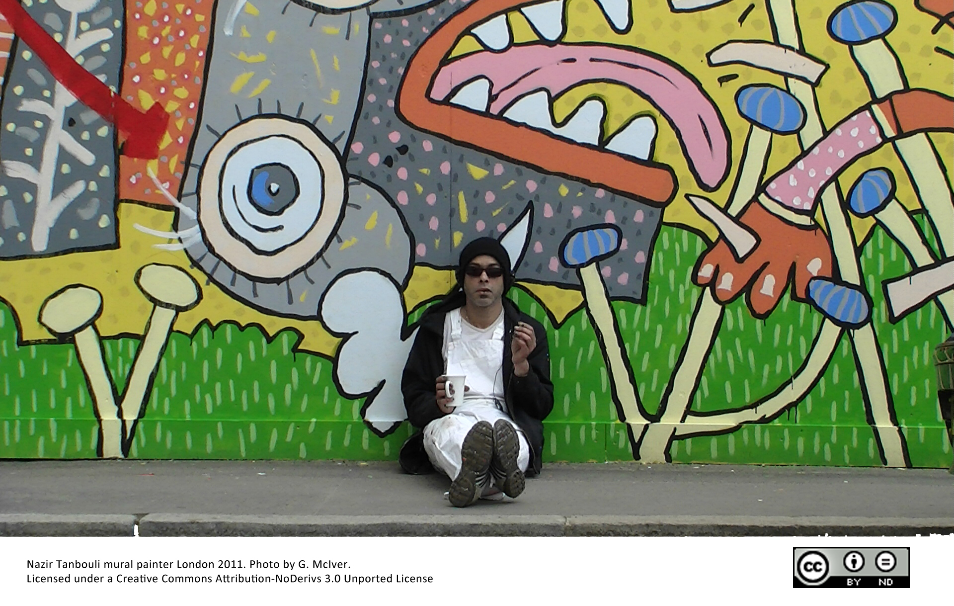 Nazir Tanbouli Egyptian born London based artist. Portrait with mural, Haggerston London May 2011.